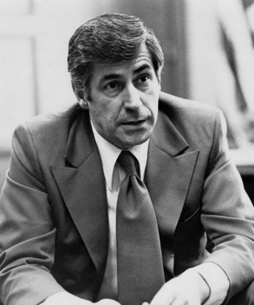 Mike Gravel